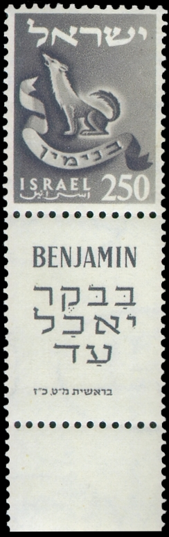 Tribes stamp - 250 mil - Benjamin. Second definitive series. Inscription on tab: "...in the morning he shall devour the prey..." Genesis IL, 27.